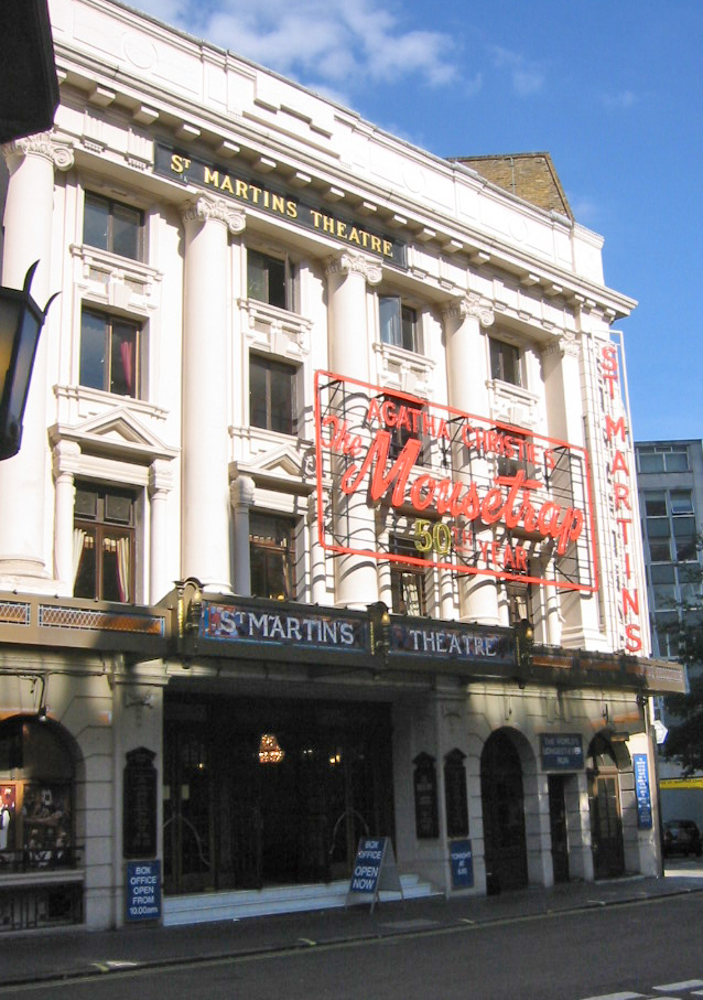 St martins theatre, London